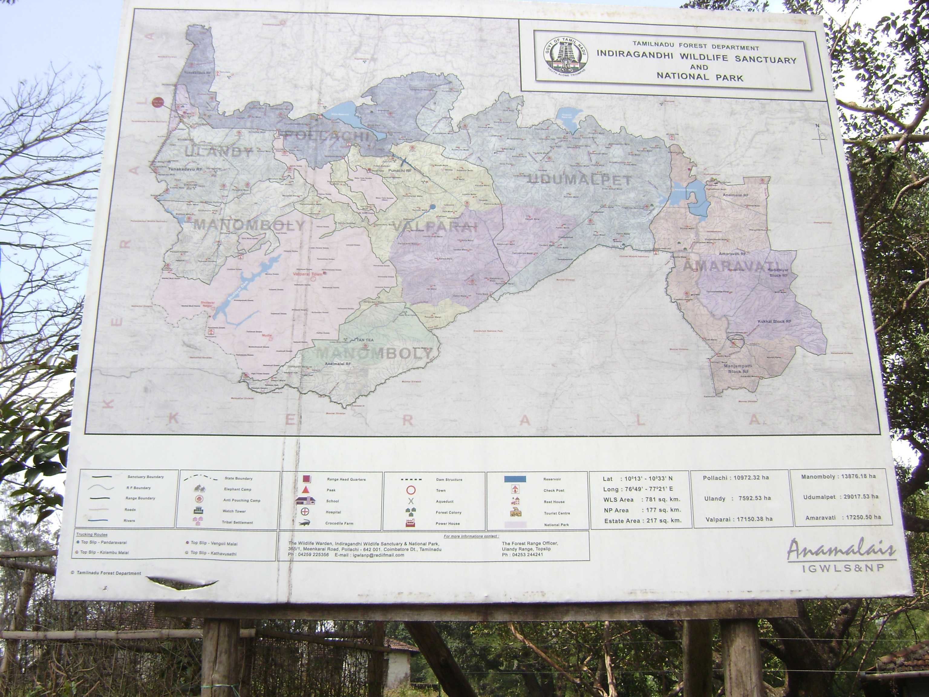 Indira Gandhi Wildlife Sanctuary & National Park Map at Top Slip